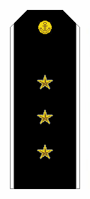 Rank insignia of the Russian Federation´s armed forces (1994-2010), here Sea war fleet (Navy) "Senior or first michman” (WO2) – shoulder strap dress uniform.